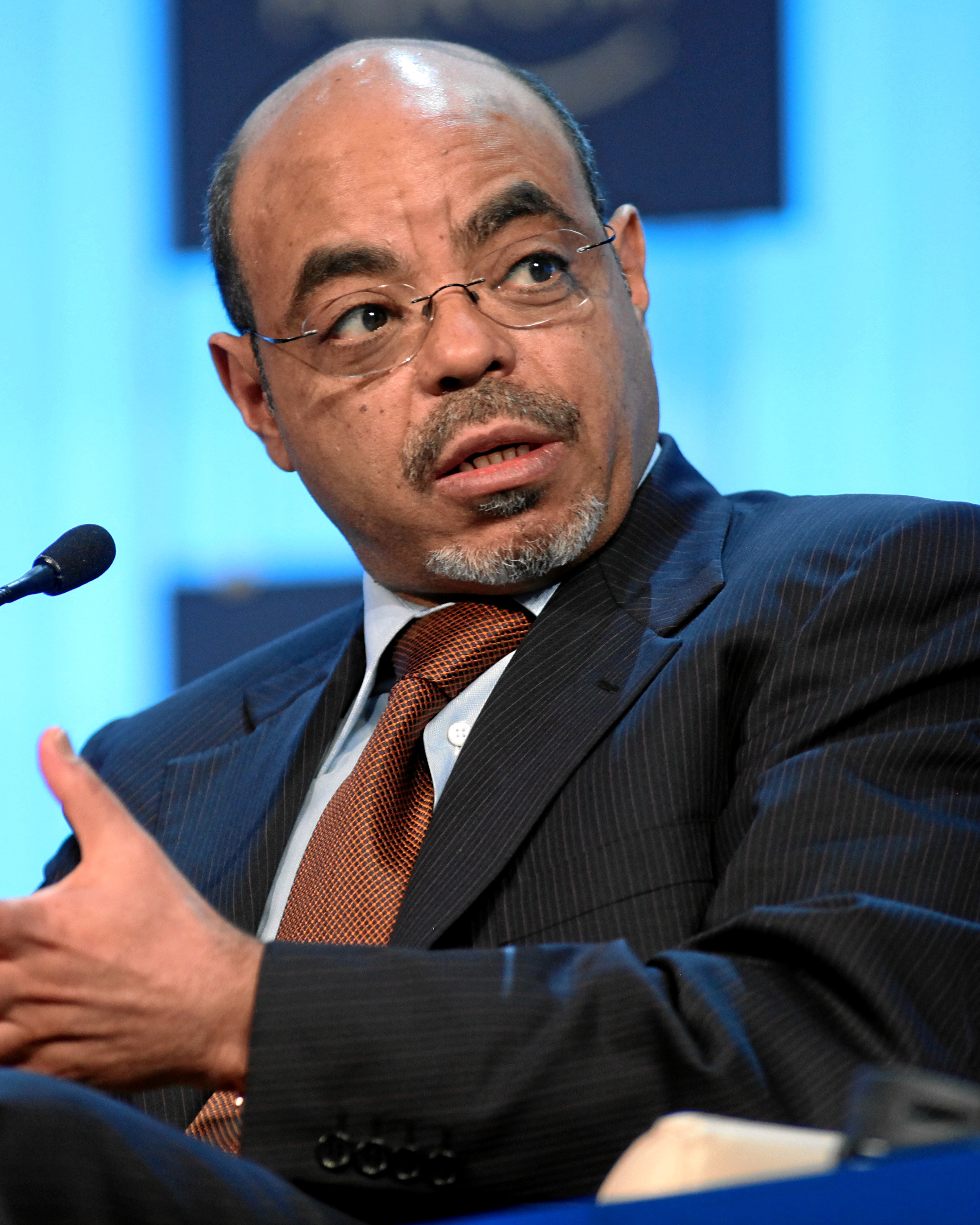 DAVOS/SWITZERLAND, 26JAN12 - Meles Zenawi, Prime Minister of Ethiopia speaks during the session 'Africa -- From Transition to Transformationy' at the Annual Meeting 2012 of the World Economic Forum at the congress centre in Davos, Switzerland, January 26, 2012.. . Copyright by World Economic Forum. by Monika Flueckiger